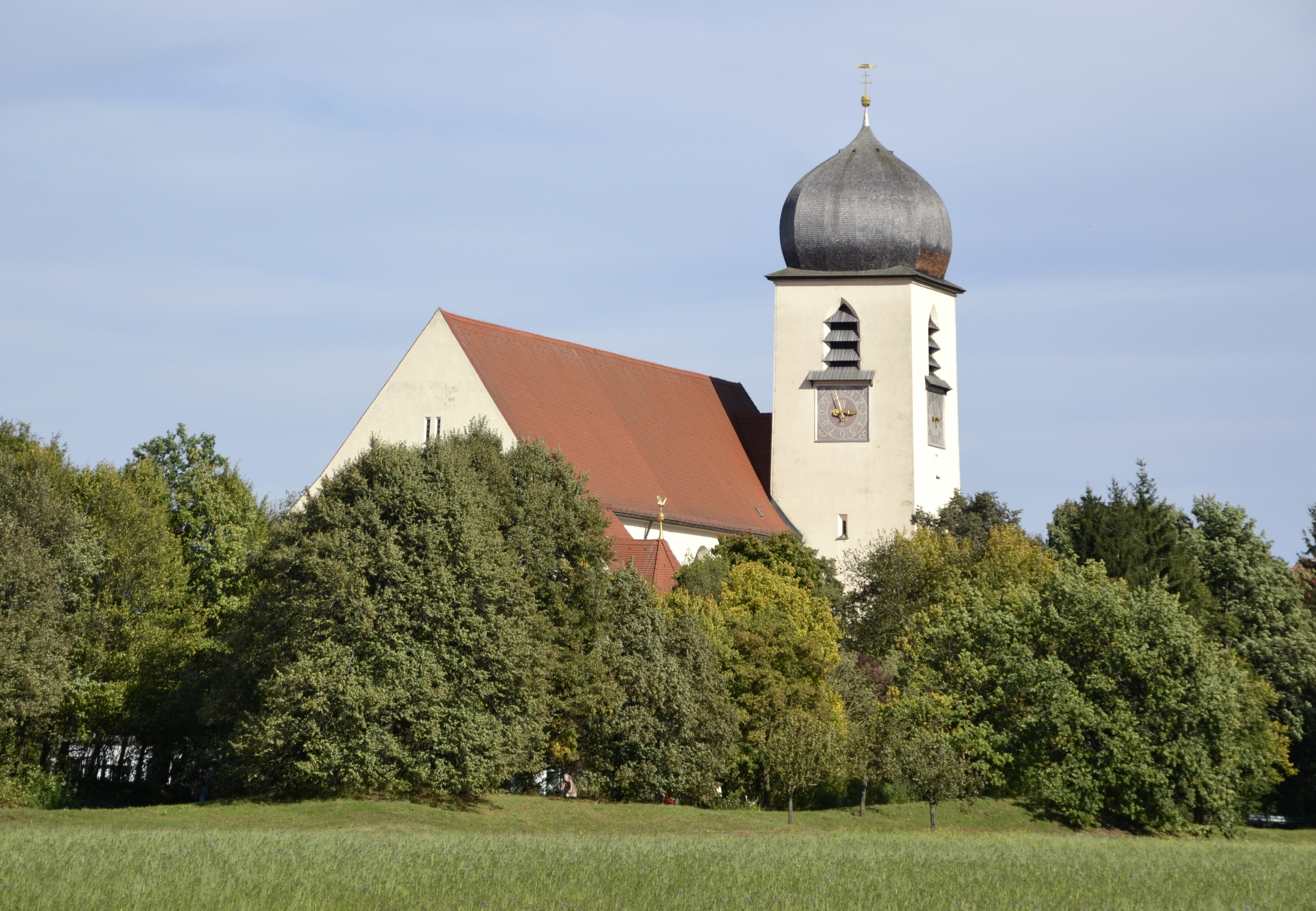 The church Leiden Christi in Obermenzing in Munich.